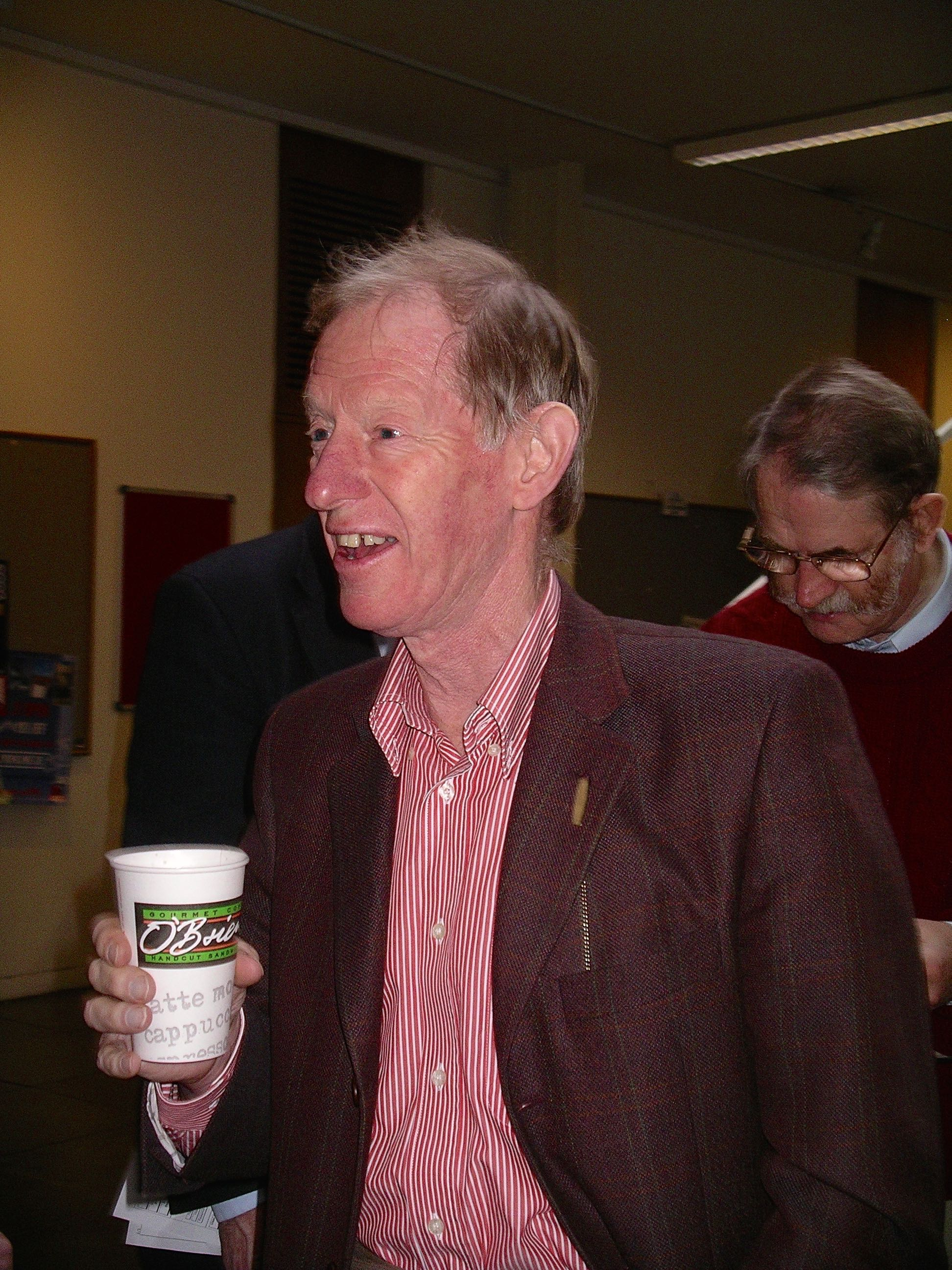 A picture of Trevor West at the Westfest meeting held in December 2005